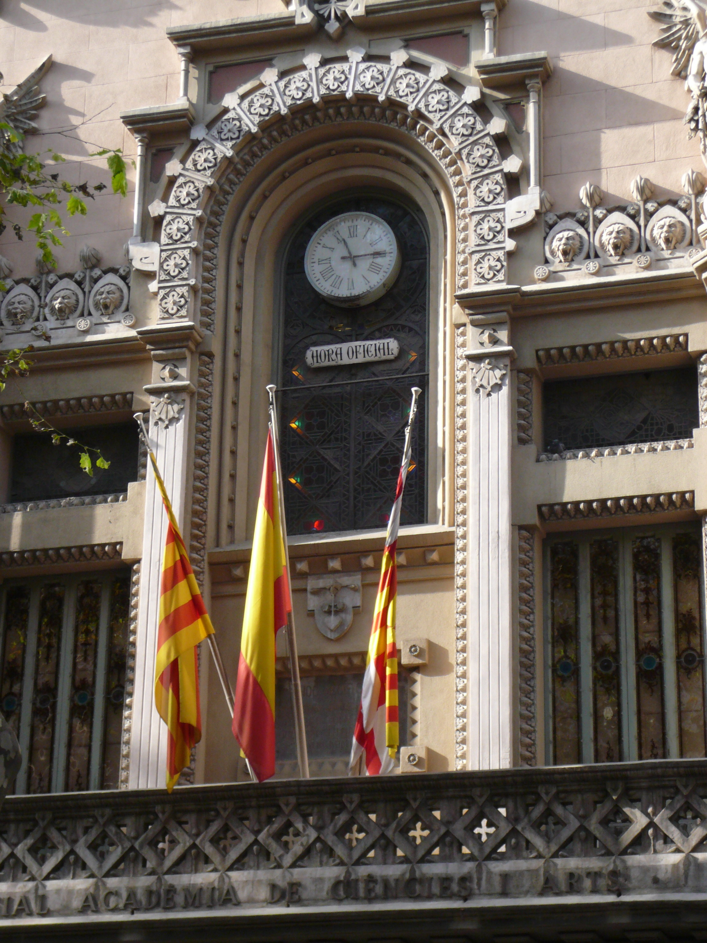 Reial Acadèmia de Ciències, by architect Josep Domènech i Estapà, in Barcelona.